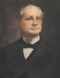 Portrait of Tennessee Governor James B. Frazier (1856–1937) by Lloyd Branson (1854–1925)